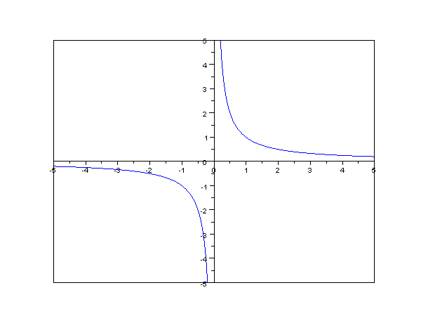 Plot of 1/x function